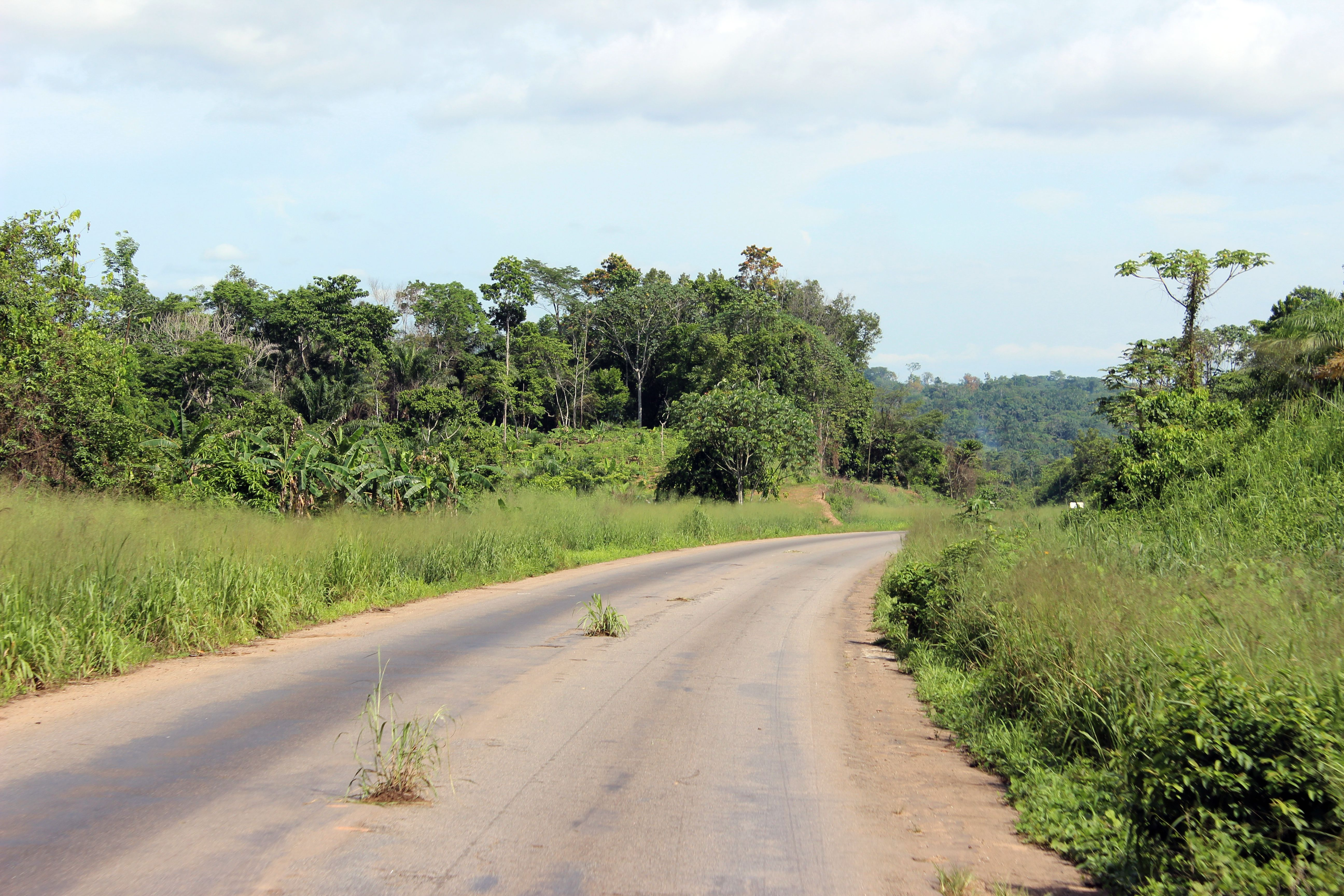 Clod of earth in the middle of road alert drivers of a danger on the road a few meters away This is an image with the theme "Africa on the Move or Transport" from: Cameroon